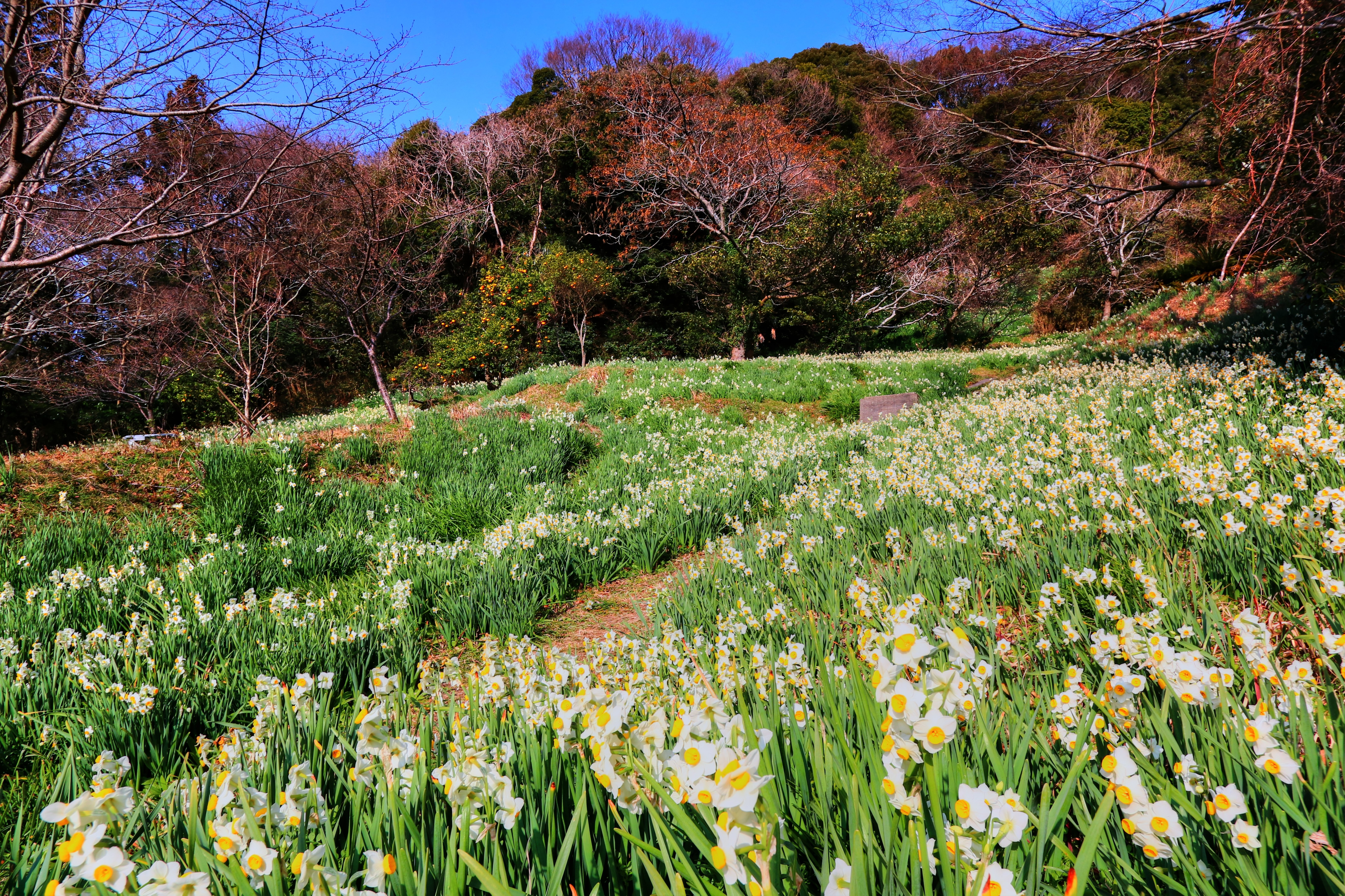 Ezuki Suisen Road in Kyonan Town, China Prefecture, Japan